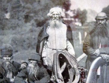 Labourers in Kerensk, early 20th century